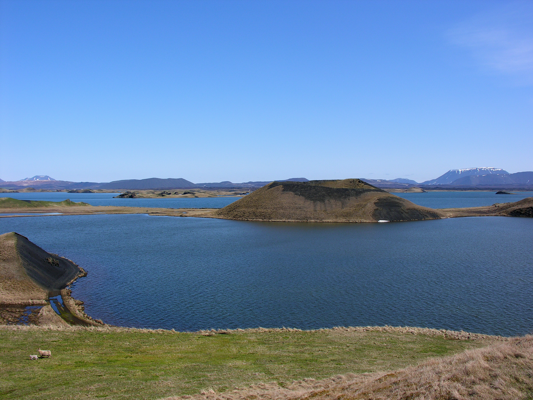 Iceland, pseudocrater in Mývatn in Northern Iceland